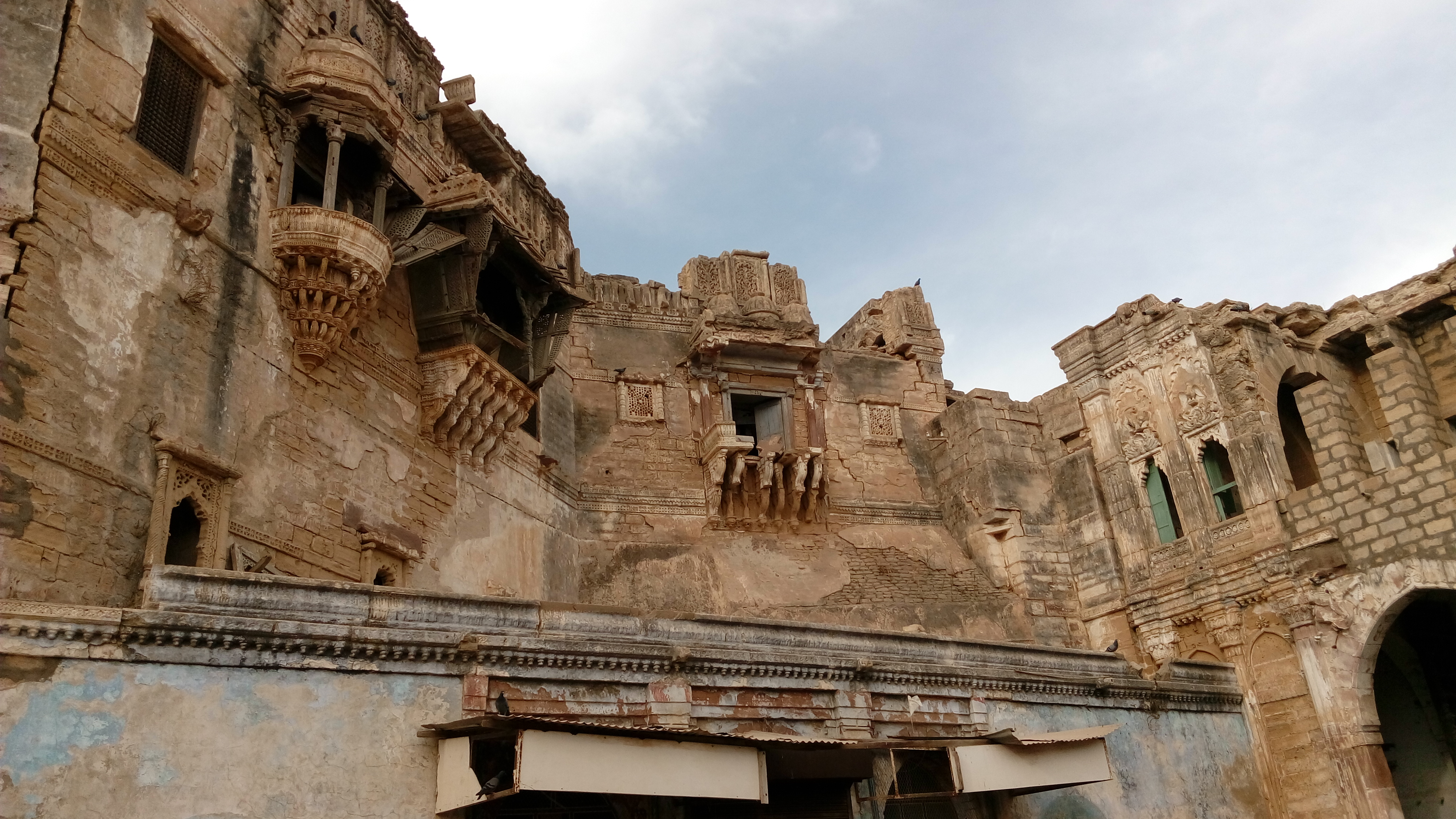 Aina Mahal, the palace of Cutch rulers, in Bhuj, Kutch, Gujarat, India